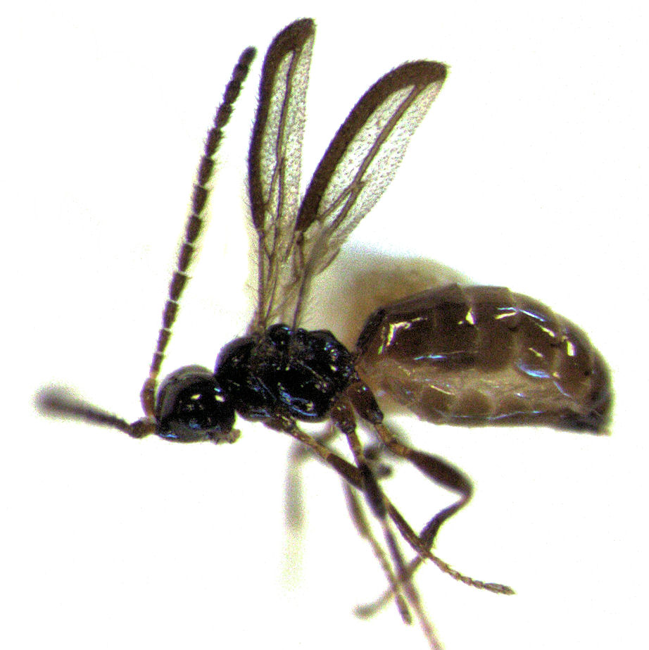 adult Aspilota albertica (male, forewing length about 1.2 mm)